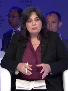 China 2017 - Global Science: The View from Russia